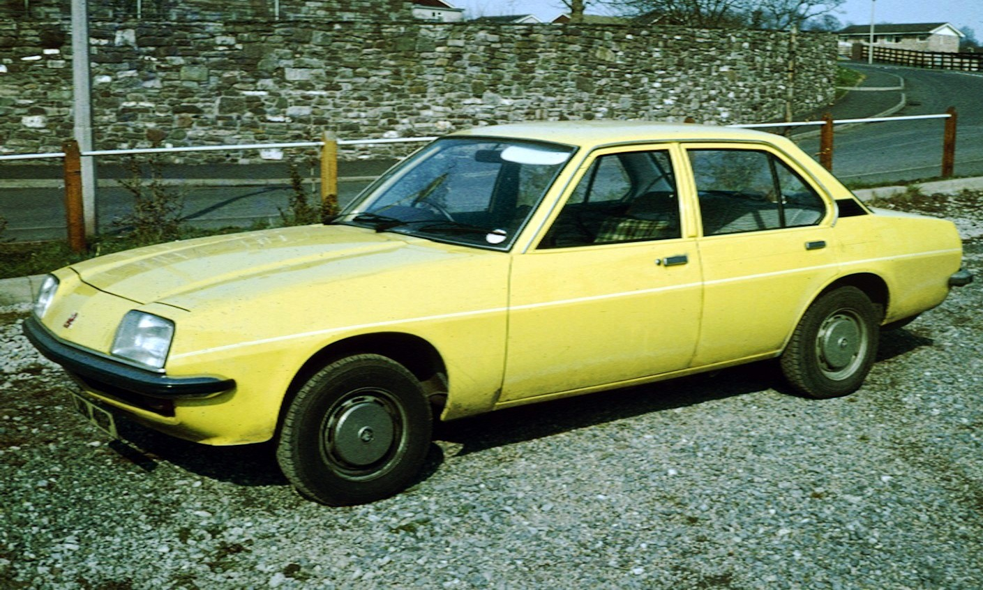 Vauxhall Cavalier Mk I in Brecon, Powys (formerly Brecknockshire), Wales